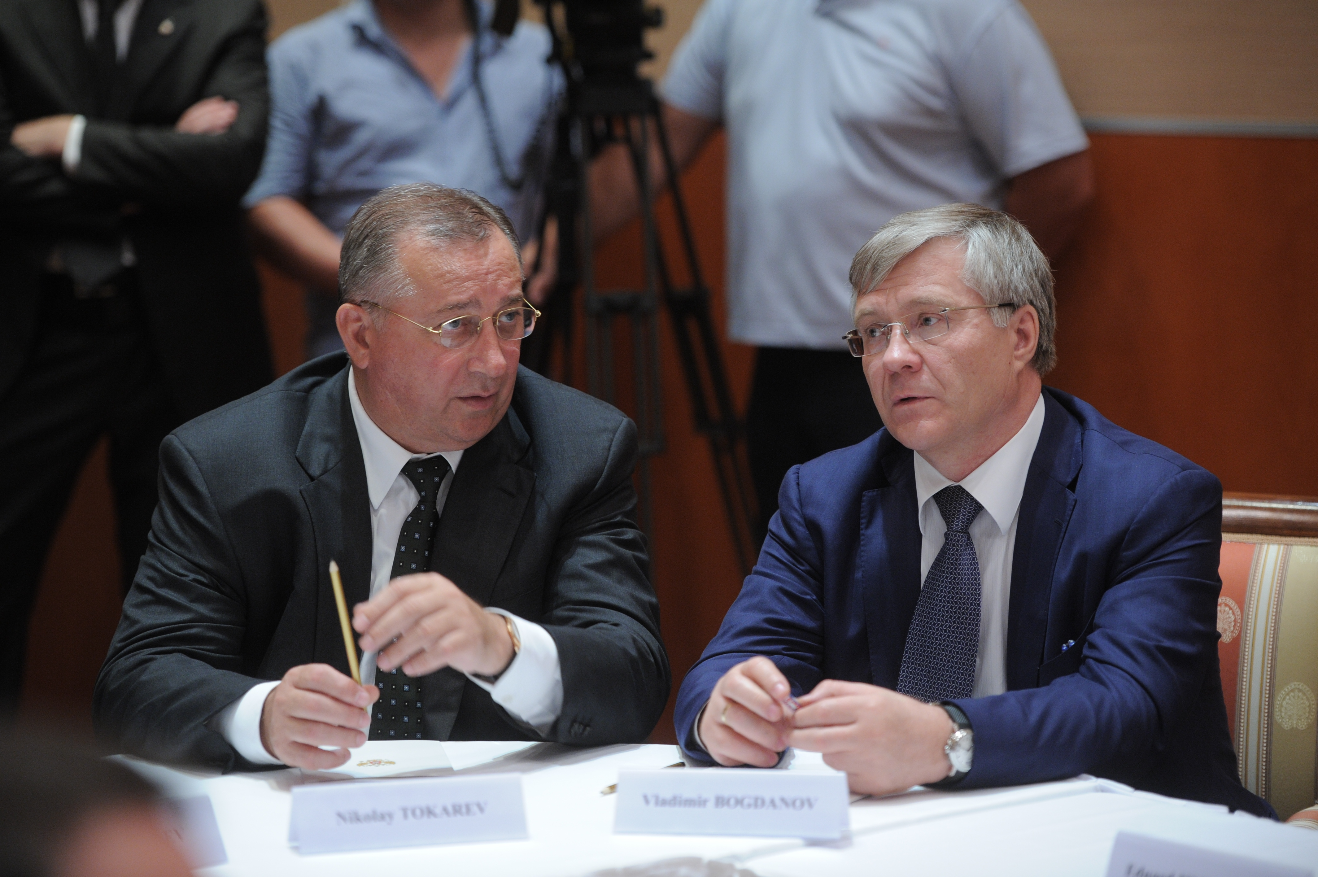 Nikolai Tokarev, Member of the Board of Directors of Rosneft, and Vladimir Bogdanov, Member of the Board of Directors of Rosneft